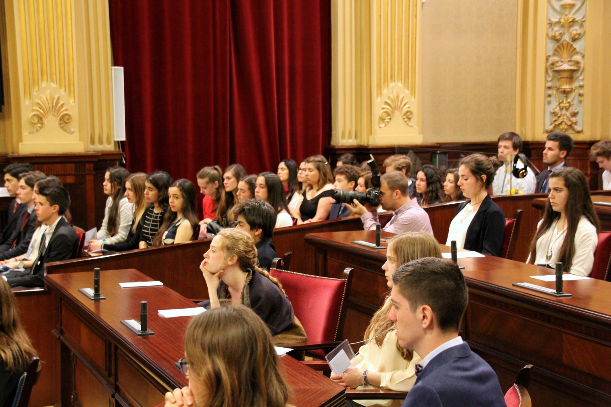 Opening Ceremony of Mallorca 2016 - 11th National Selection Conference of EYP Spain